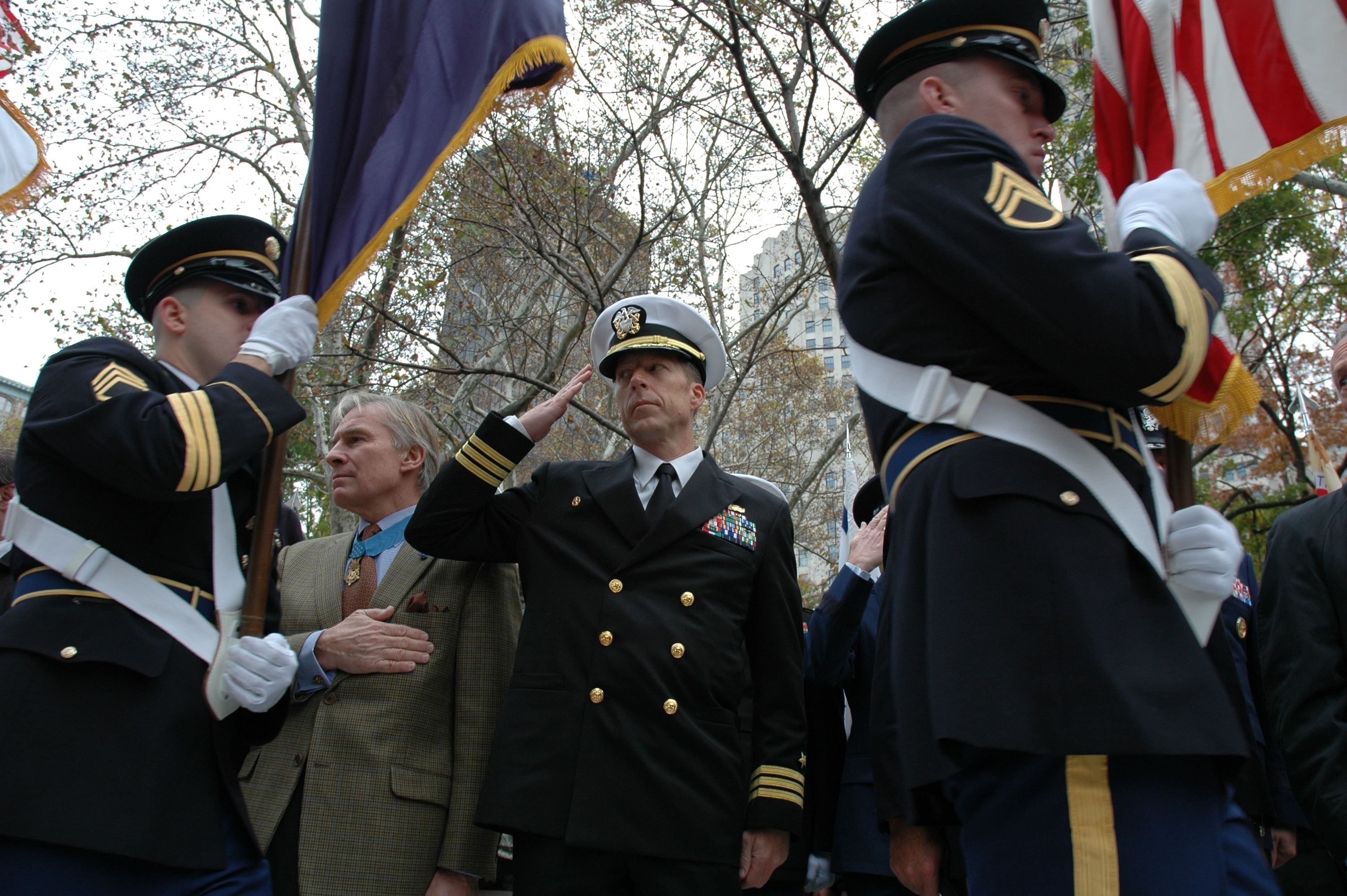 NEW YORK (Nov. 11, 2009) Medal of Honor recipient Paul W. Bucha, left, and Cmdr. Curt Jones, commanding officer of the amphibious transport dock ship USS New York (LPD 21), render honors to the colors during the opening ceremony of the 90th New York City Veterans Day Parade. (U.S. Navy photo by Mass Communication Specialist 1st Class Keith L. Darby/Released)